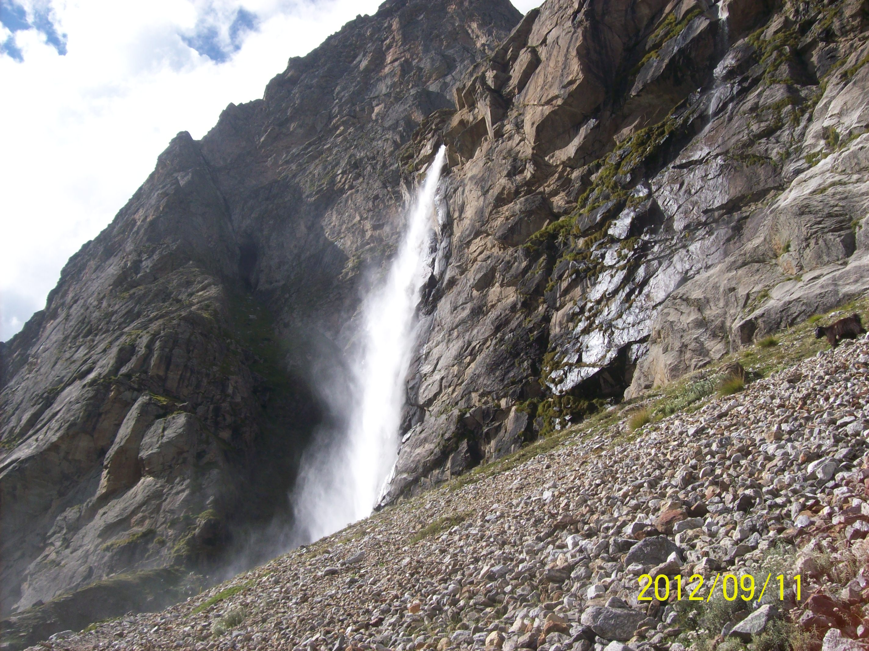 Vasudhara Fall from my camera.